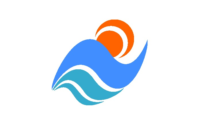 Flag of Nishiizu Shizuoka